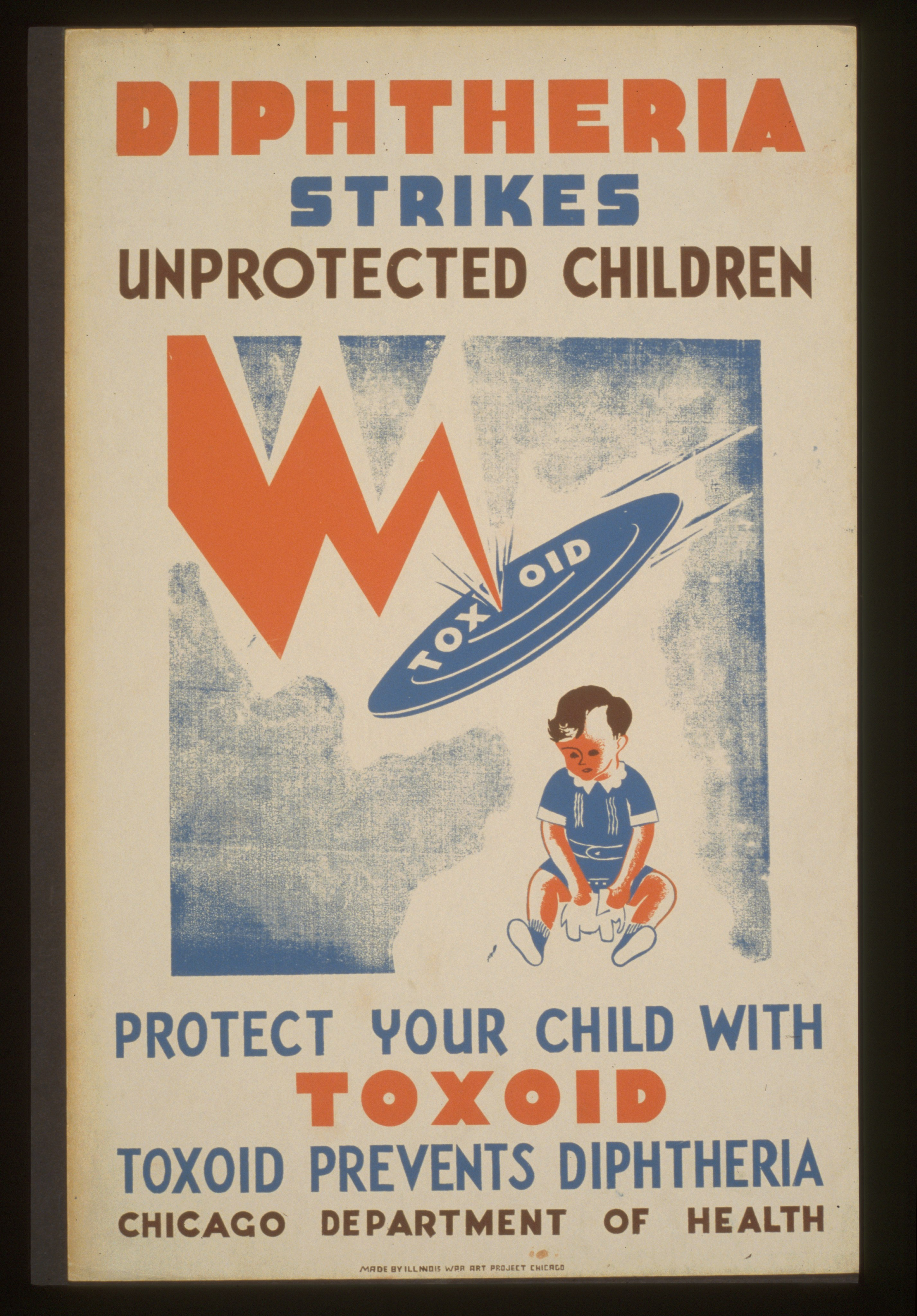 Title: Diphtheria strikes unprotected children Abstract: Poster for the Chicago Department of Health, showing a flying disc "Toxoid" preventing a lightning bolt from striking a child. Physical description: 1 print on board (poster) : silkscreen, color. Notes: Date stamped on verso: Mar 20 1941.; Work Projects Administration Poster Collection (Library of Congress).